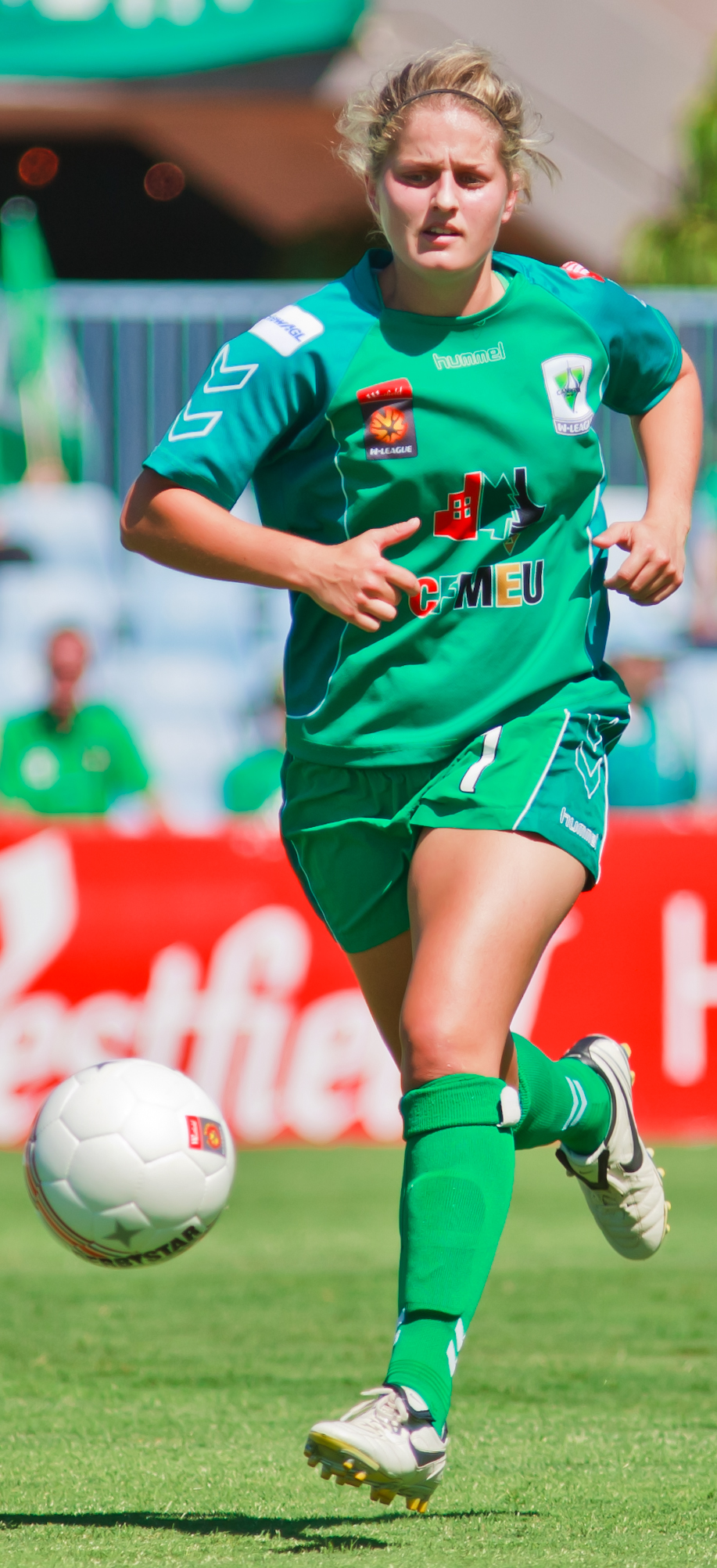 Ellie Brush playing for Canberra United in the 2009 Australian W-League.